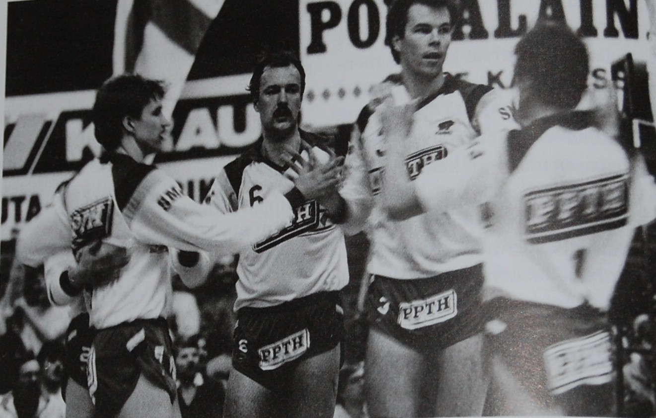 Finland volleyball team Maila-Jussit.